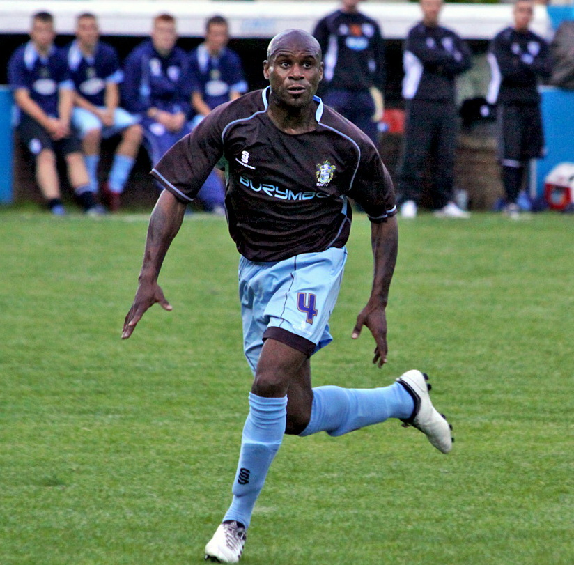 Bury FC trialist Frank Sinclair watches the ball during the Ramsbottom United vs. Bury friendly game at The Riverside, home of Ramsbottom United FC. Tuesday 4th August 2009